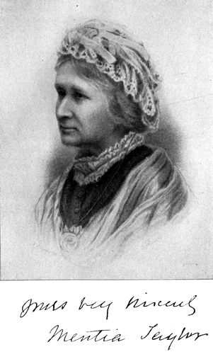 Image of Mentia Taylor